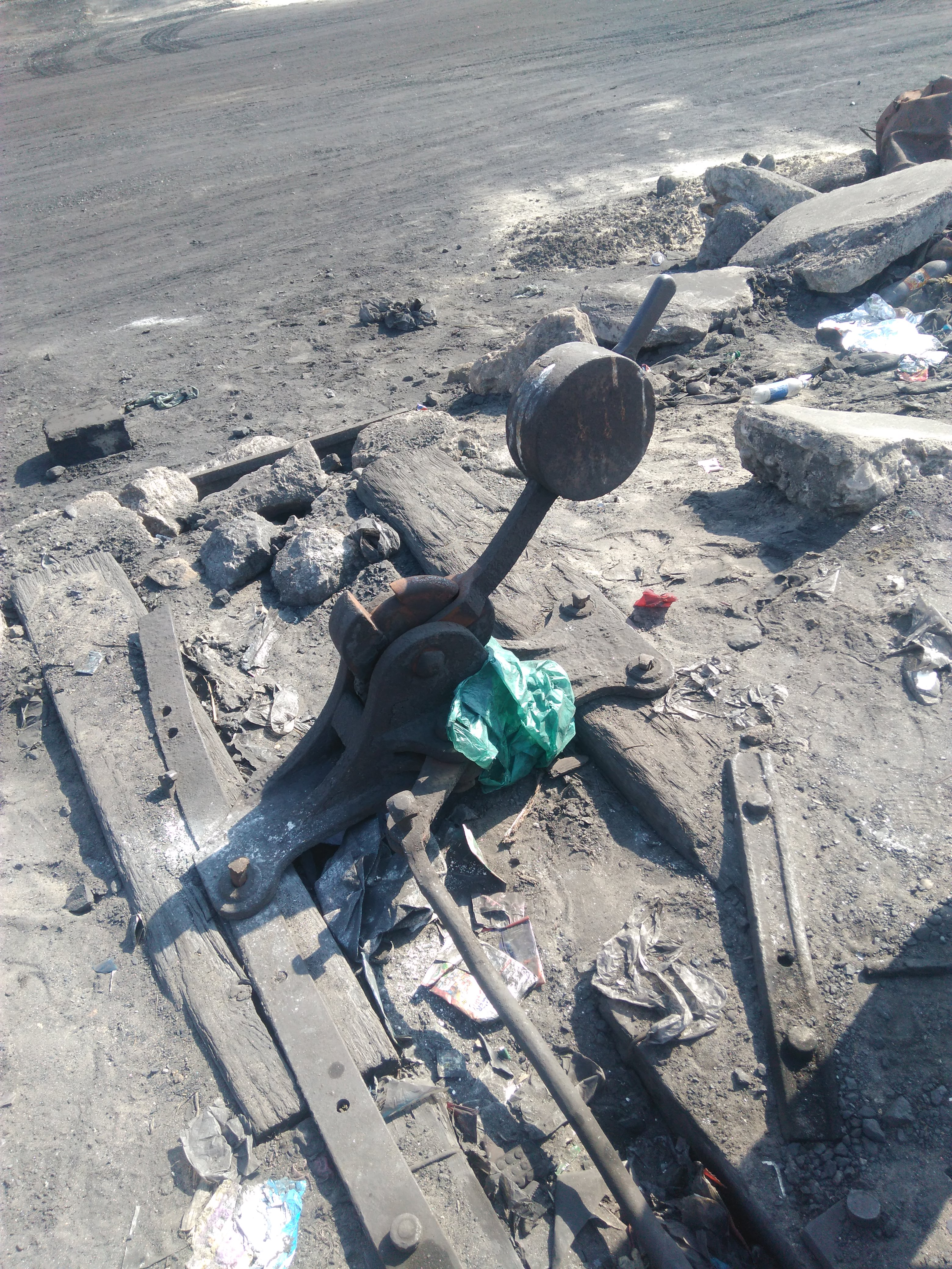 An Ill-maintained Railroad Switch at Wazir Mansion Railway Station Karachi, Pakistan.